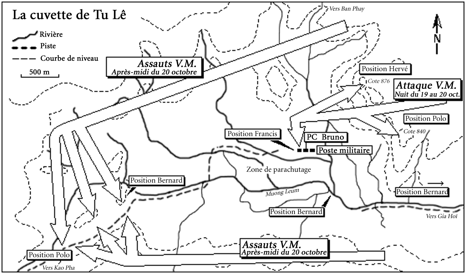 Map of Tu Lê battle (oct. 1952) during Indochina War.